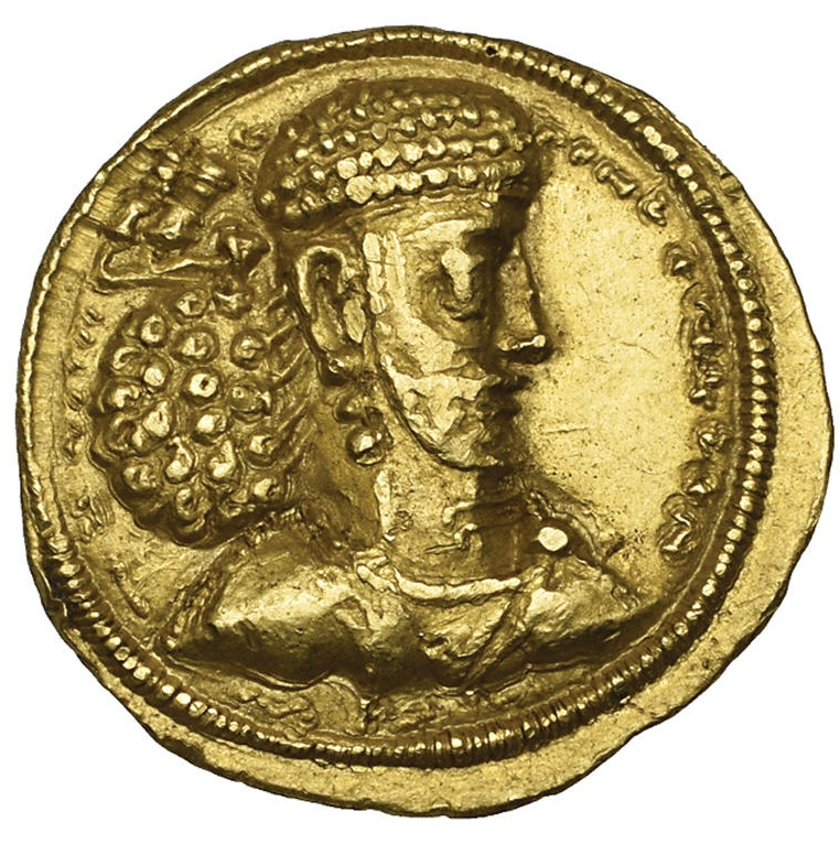 Sasanian, Shapur III (383-388), gold dinar, bust right wearing close-fitted crown, rev., bust of Ahuramazda in flames on altar flanked by attendants; inscription on shaft, 4.34g, die axis 3.00 (cf. Saeedi AV56 – as Shapur II or III; Sunrise 874), some marks, about extremely fine and rare.